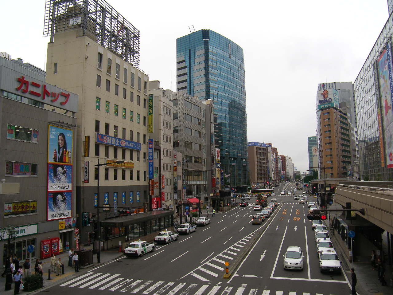 Ekimae Abenue of Sendai. Nothward from the west pedestrian deck of Sendai Station. Chūō 1 chōme, Aoba ward, Sendai, Miyagi prefecture, Japan.